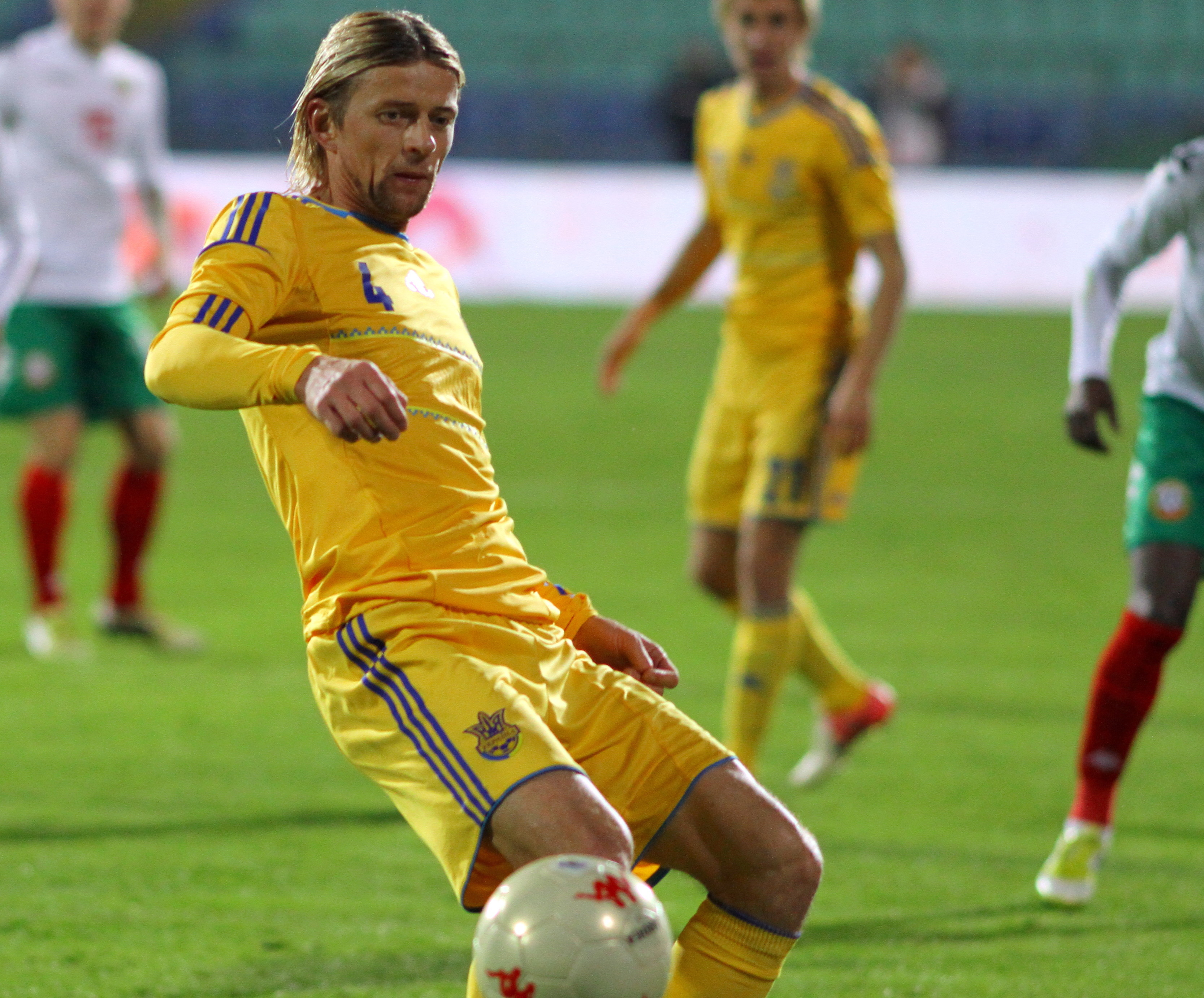 Anatoliy Oleksandrovych Tymoshchuk (born 30 March 1979 in Lutsk) is a Ukrainian football midfielder who plays for German Bundesliga club Bayern Munich.